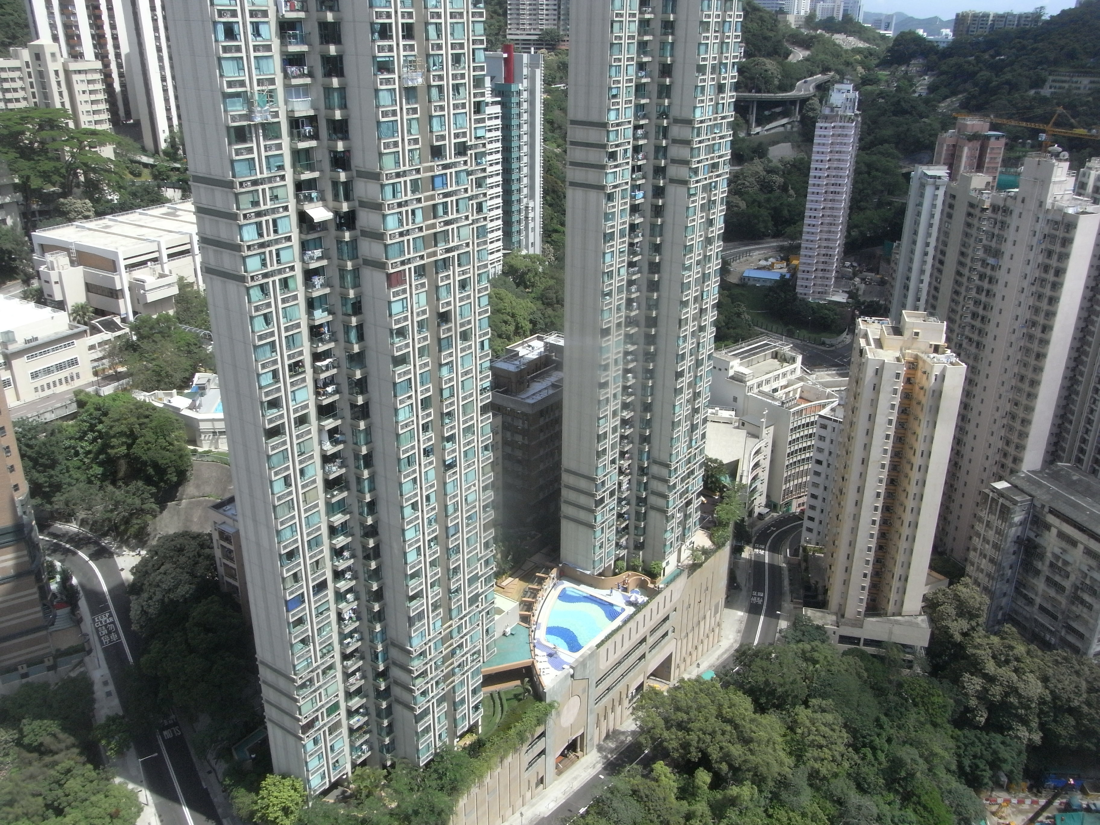 堅尼地城寶雅山